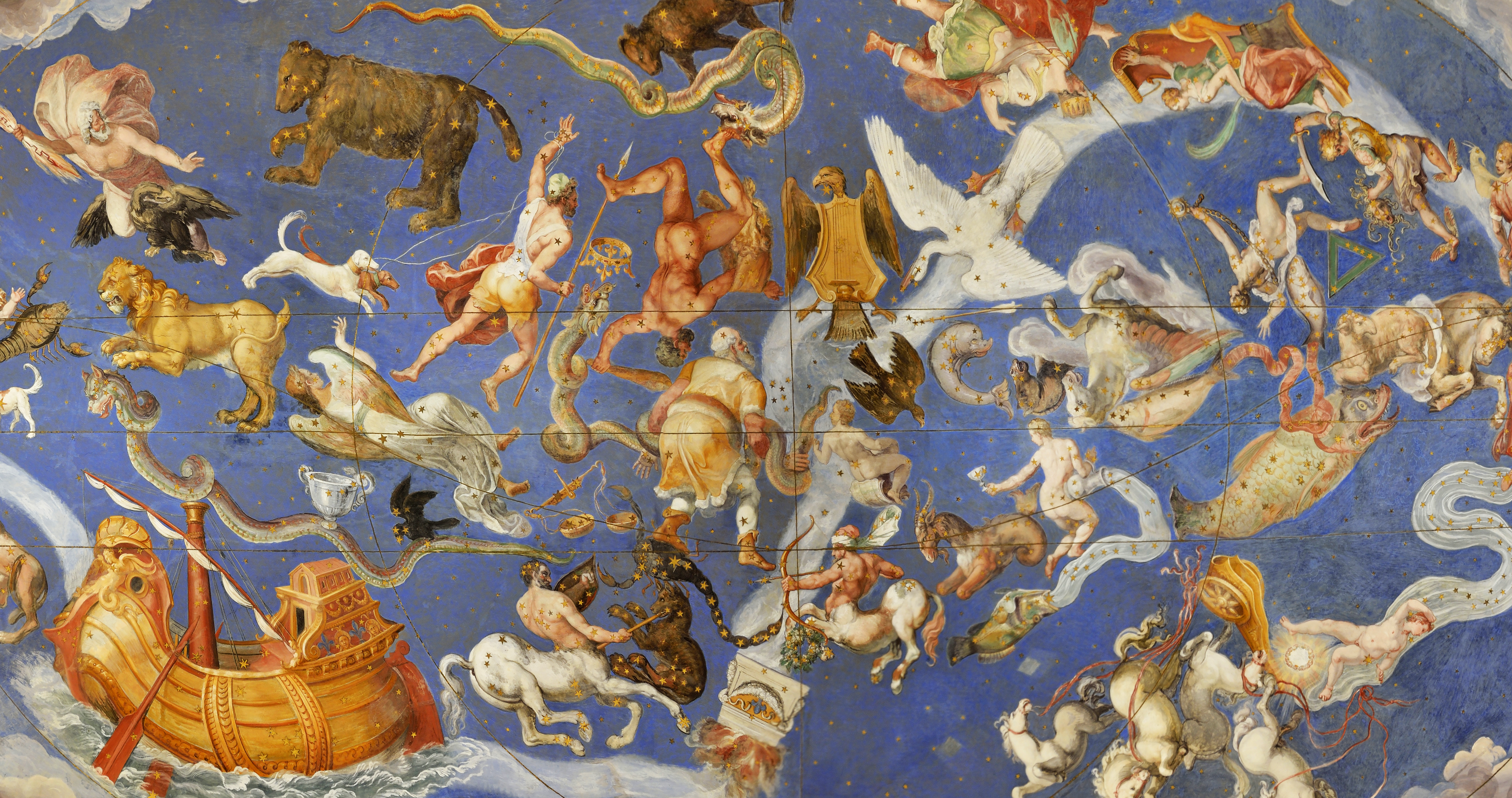 Fresco of costellations in Palazzo Farnese (Caprarola)